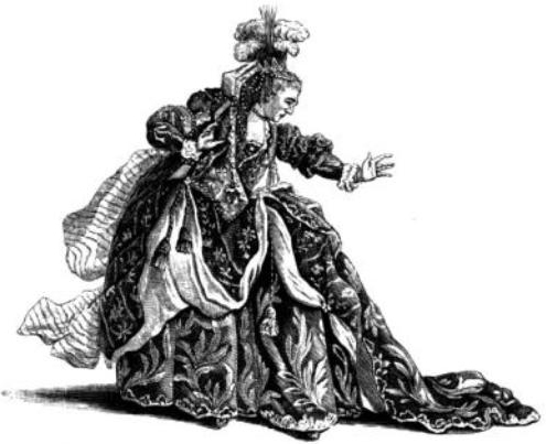 French actress Marie Dumesnil (1713-1803), as Athalie.